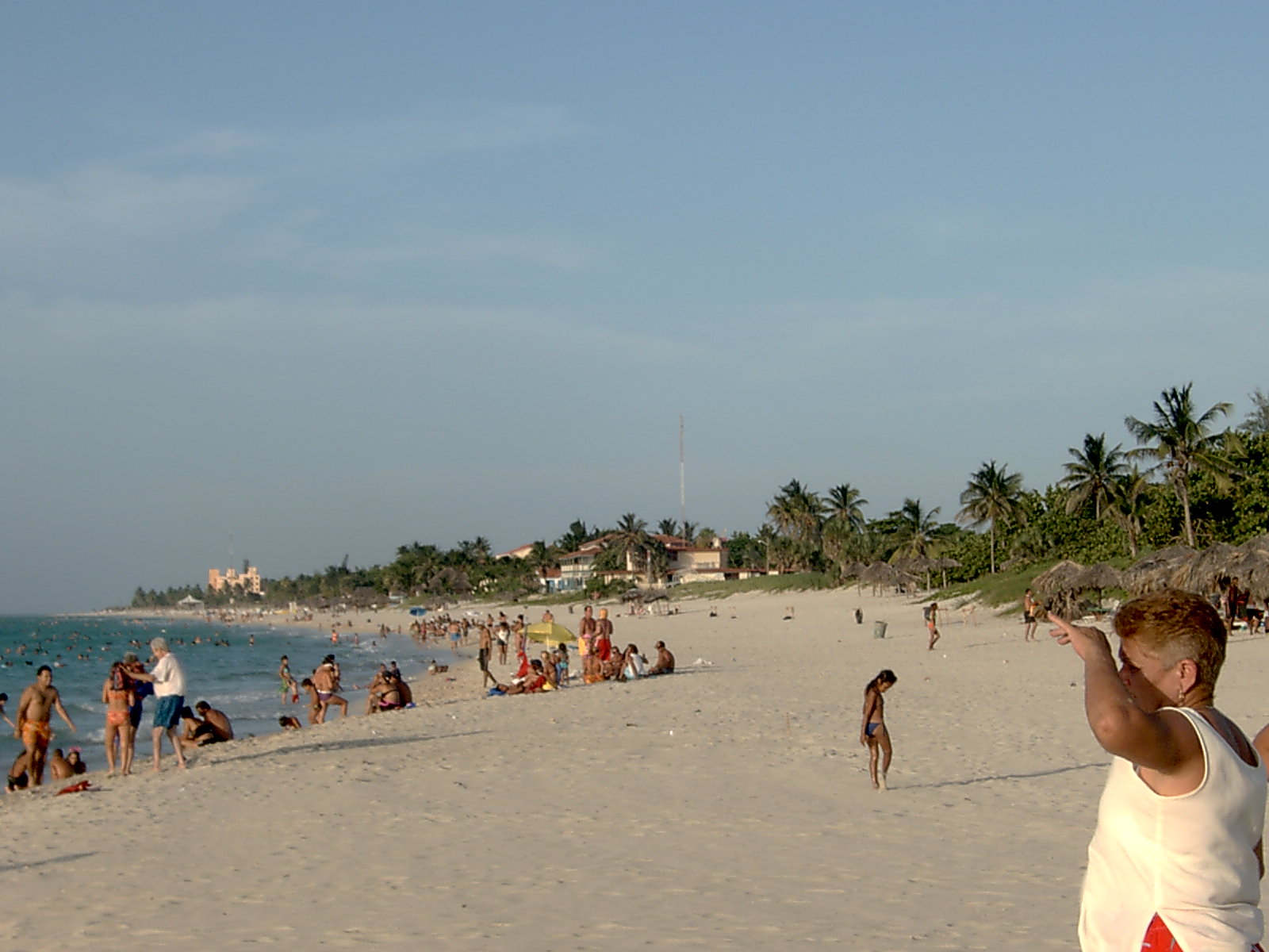 beach in Varadero, one of the most famous in Cuba